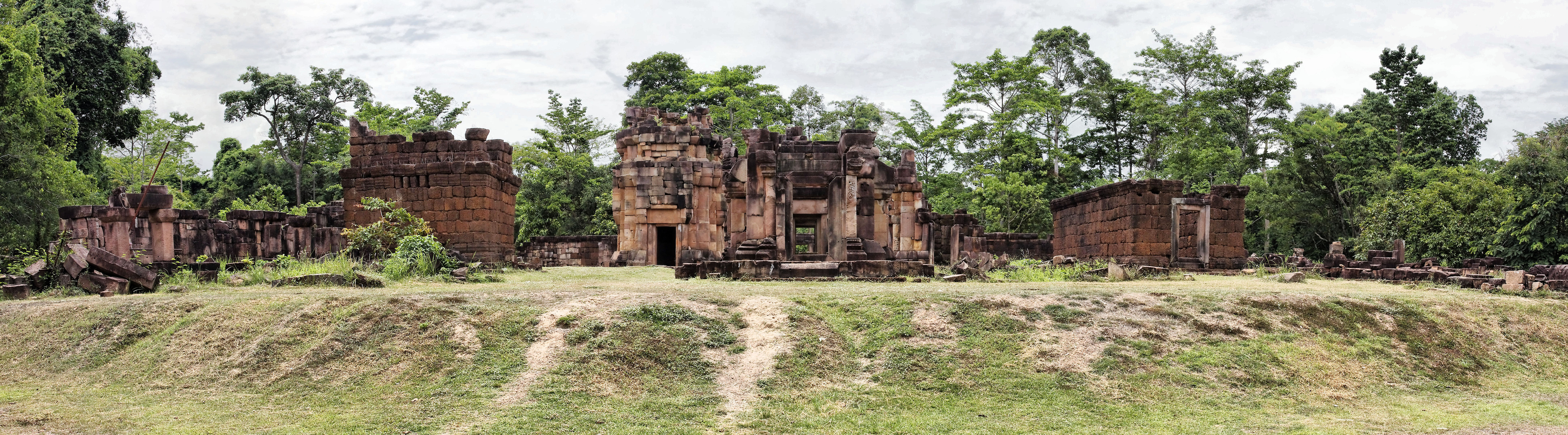 Prasat Ta Muen Thom, Thailand